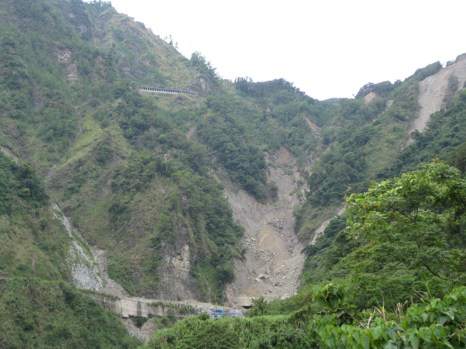 The landslide has completely blocked the Wugan Riverbed in Nantou County,caused by typhoon Morakot on 8th August,2009.